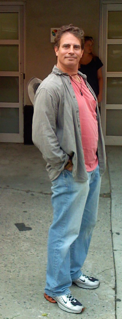 David Silverman in 2007 in New York, in front of The Daily Show theater.